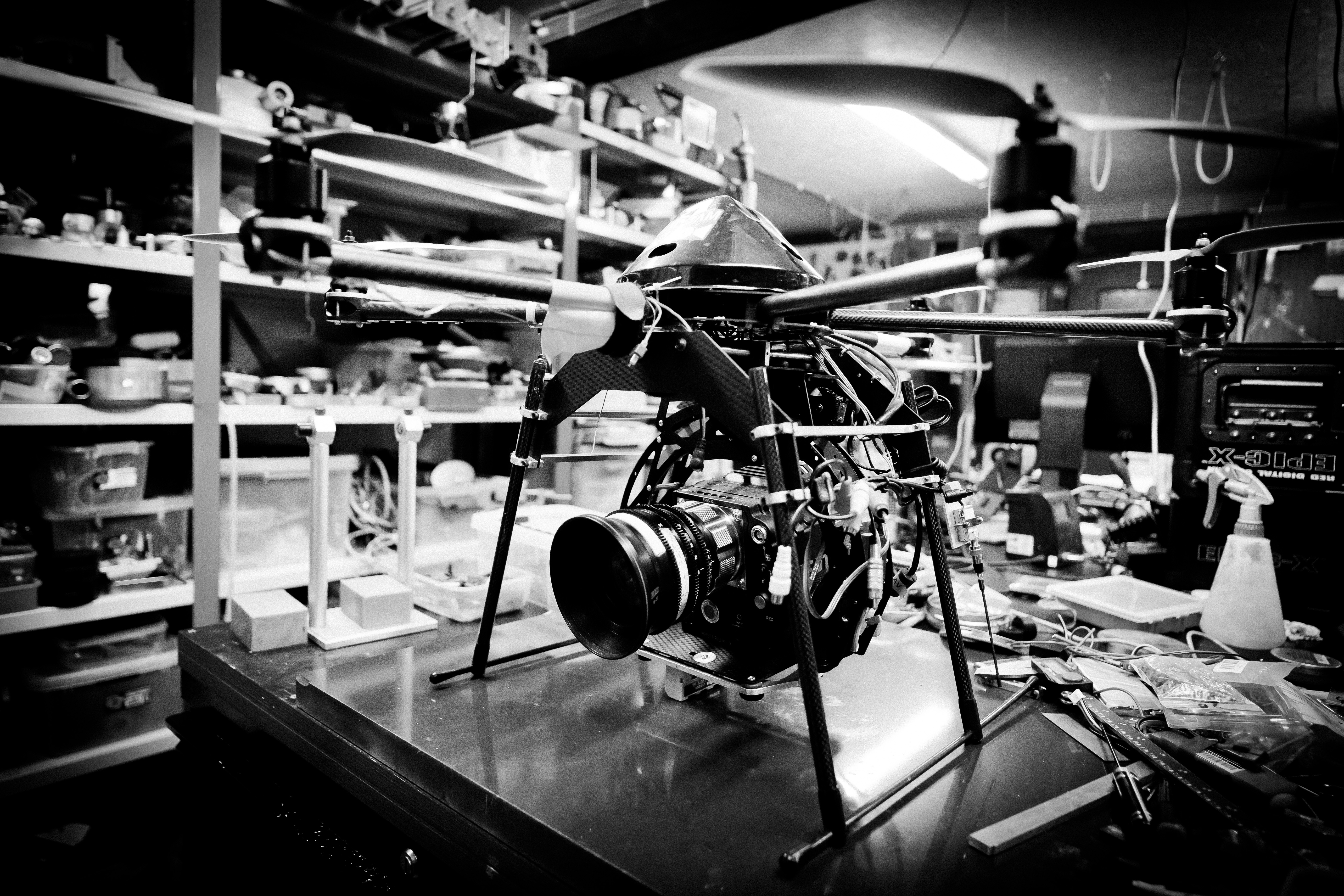 Helicopter carrying a Red EPIC-X camera, used by photographer Ville Hyvönen